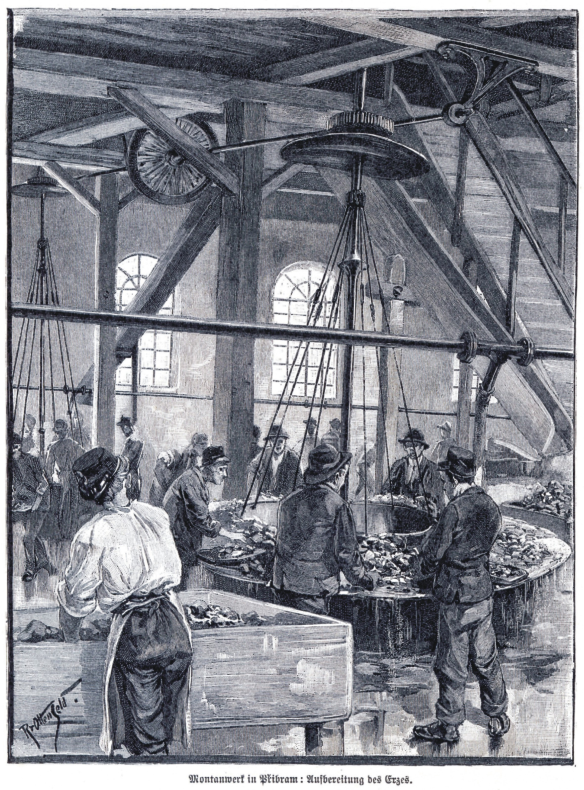 bucking plate at Příbram (Central Bohemia, Czech republic)label QS:Len,"bucking plate at Příbram (Central Bohemia, Czech republic)" label QS:Lde,"Scheidebank in Příbram (Mittelböhmen, Tschechische Republik)"